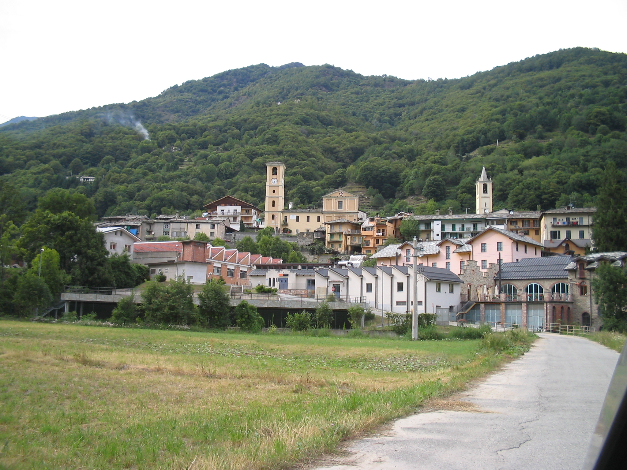 View of the town of Villar Pellice, in Val Pellice; province of Turin, Piedmont